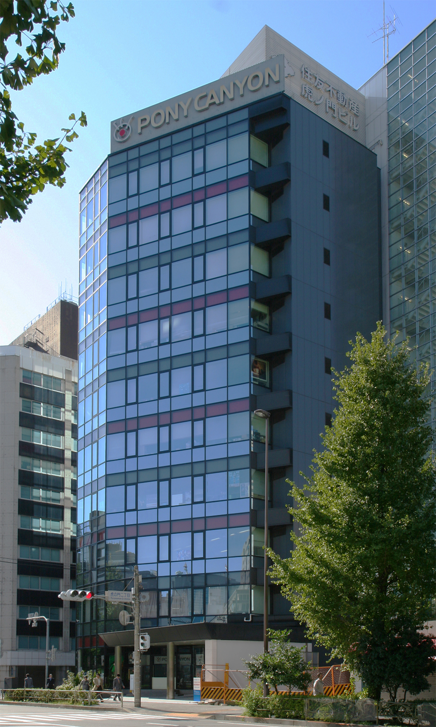 Japanese Pony Canyon head office in Minato, Tokyo.